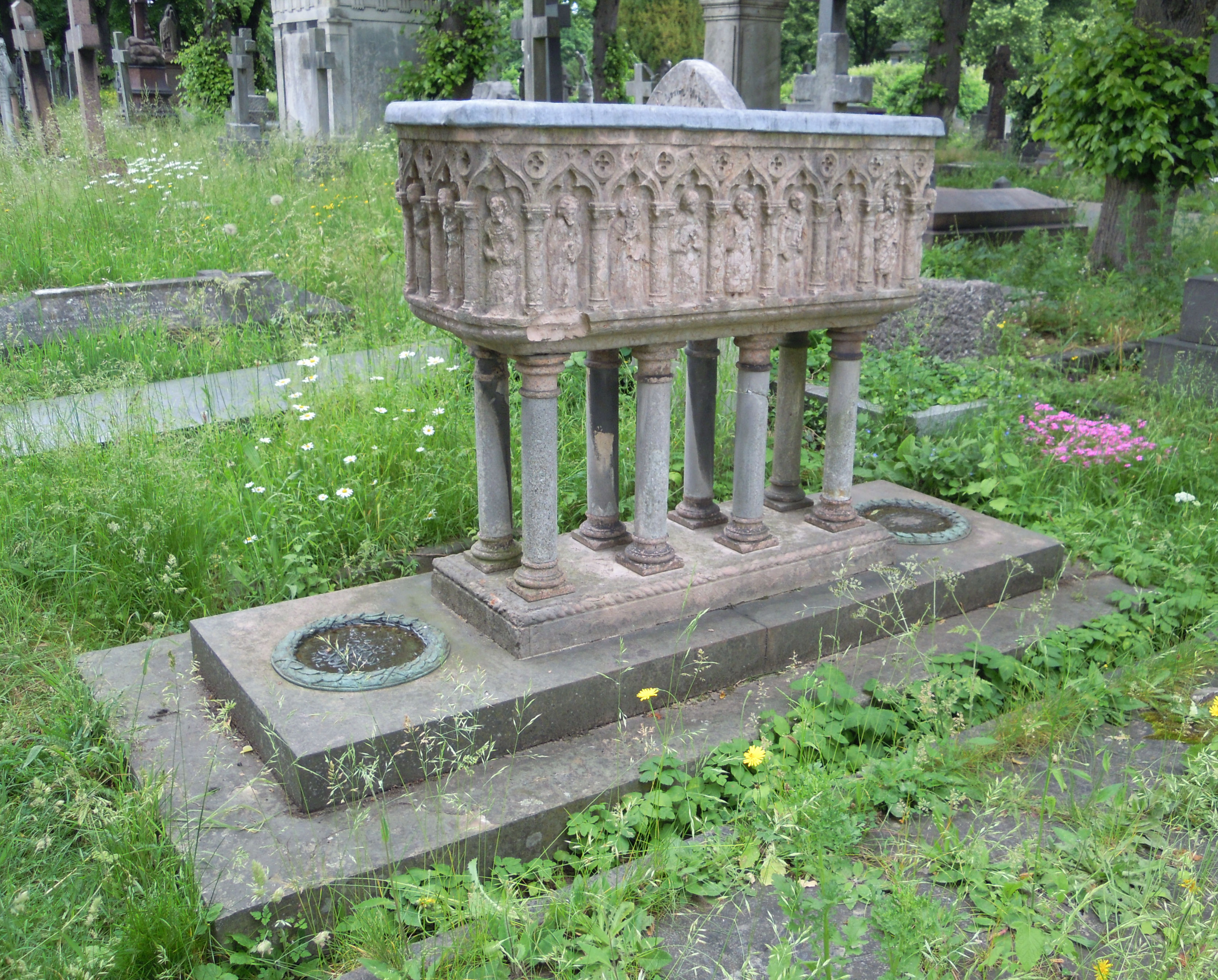 Funerary monument of Valentine Cameron Prinsep in Brompton Cemetery, London